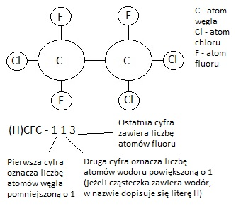 my own image made in Paint